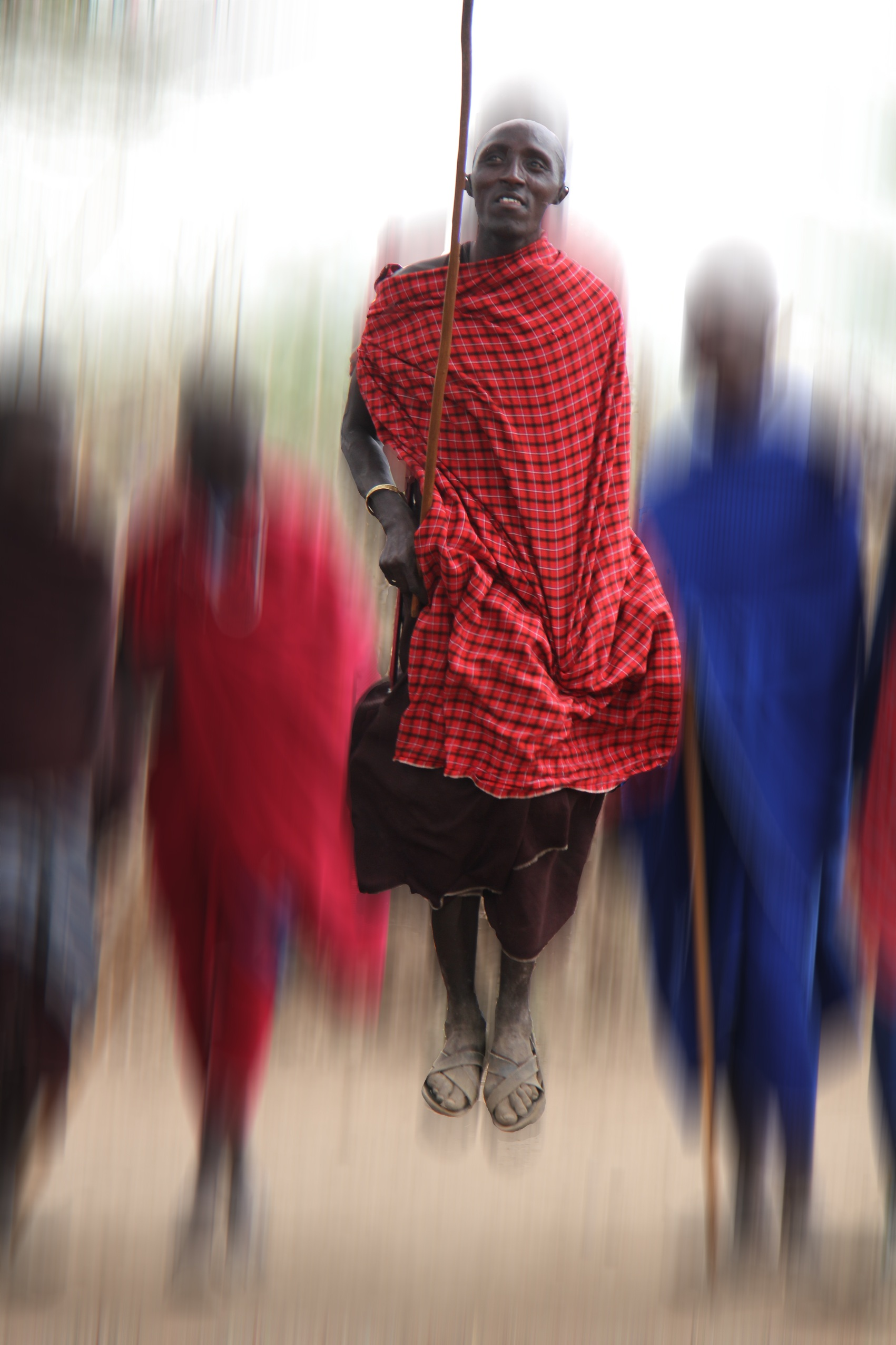 Massai jump-dance of the men